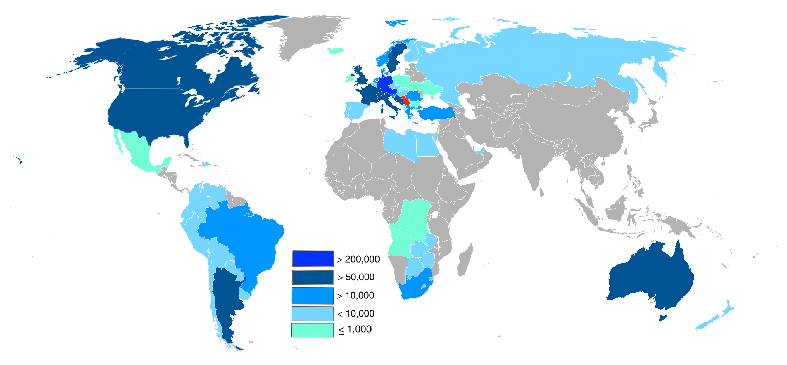 The updated world map of the Serbian Diaspora